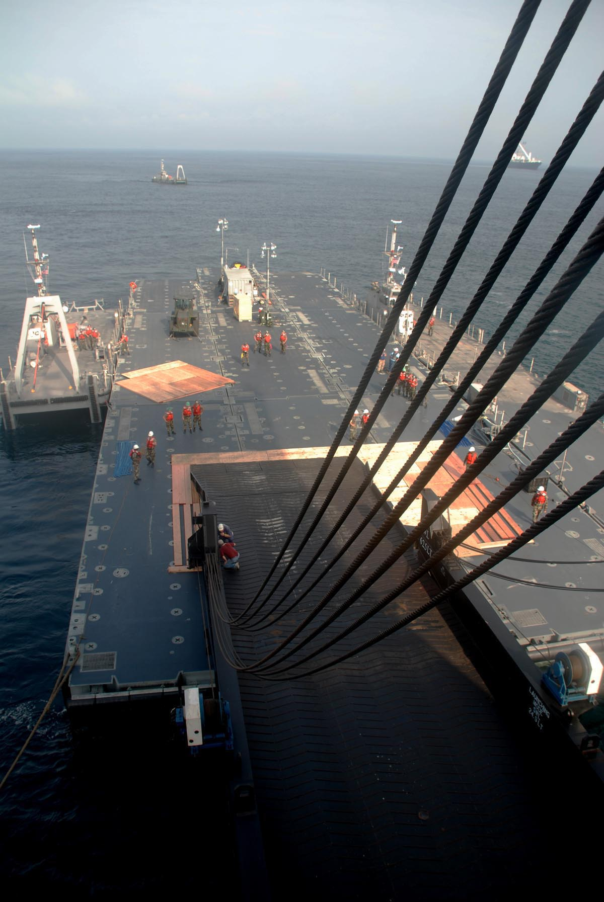 The ramp of the USNS Bobo connects the maritime prepositioning ship to the Roll-on/Roll-off Discharge Facility, a floating platform powered by the Improved Navy Lighterage System. The testing and evaluation of the INLS is part of West African Training Cruise 2008, where for the first part the system will be used at sea, in open waters. The RRFD will be used to transfer Marine Corps vehicles and Marines between naval platforms and ashore in order to conduct humanitarian assistance missions in Monrovia, Liberia.